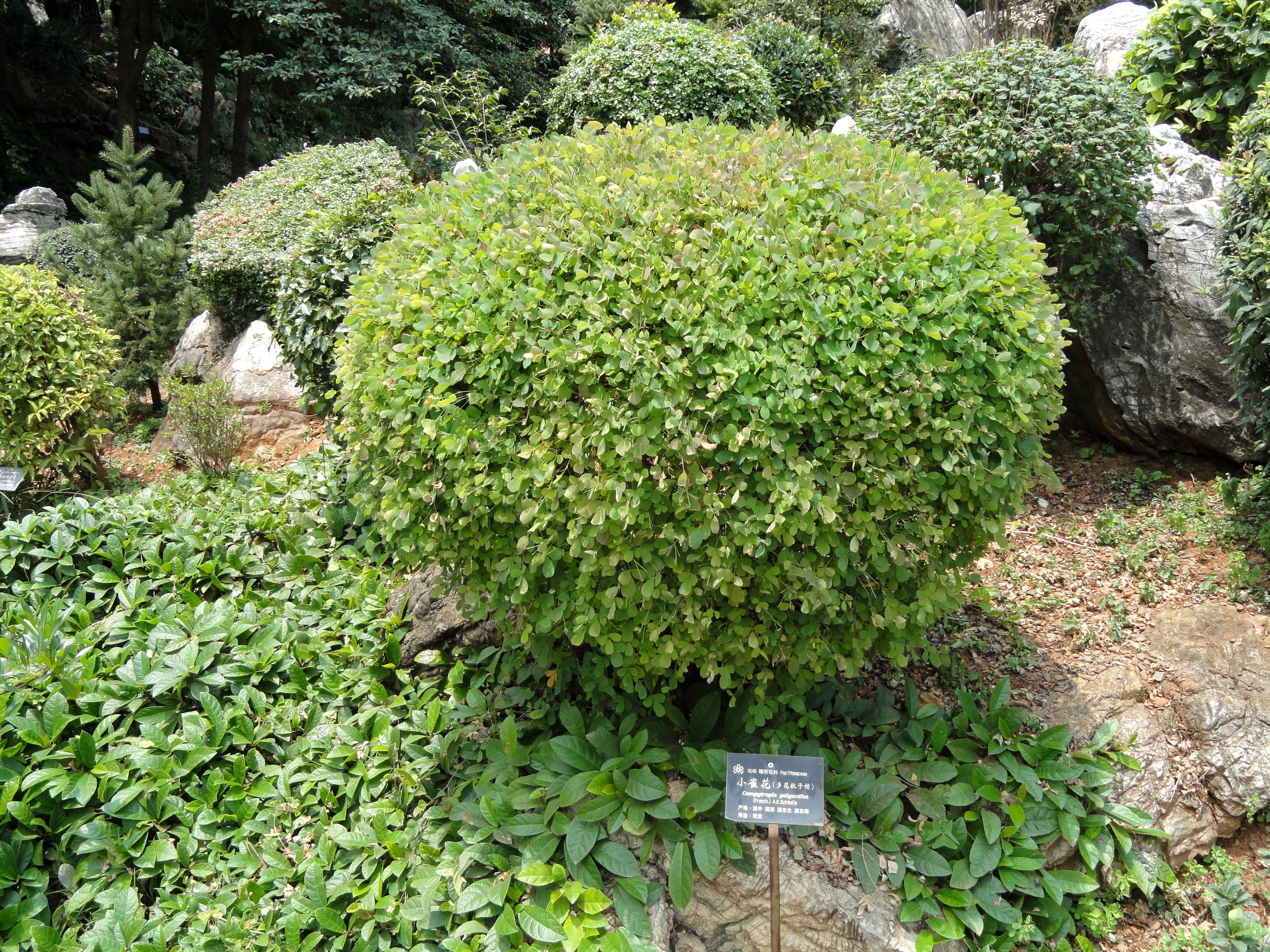 Plant specimen in the Kunming Botanical Garden, Kunming, Yunnan, China.